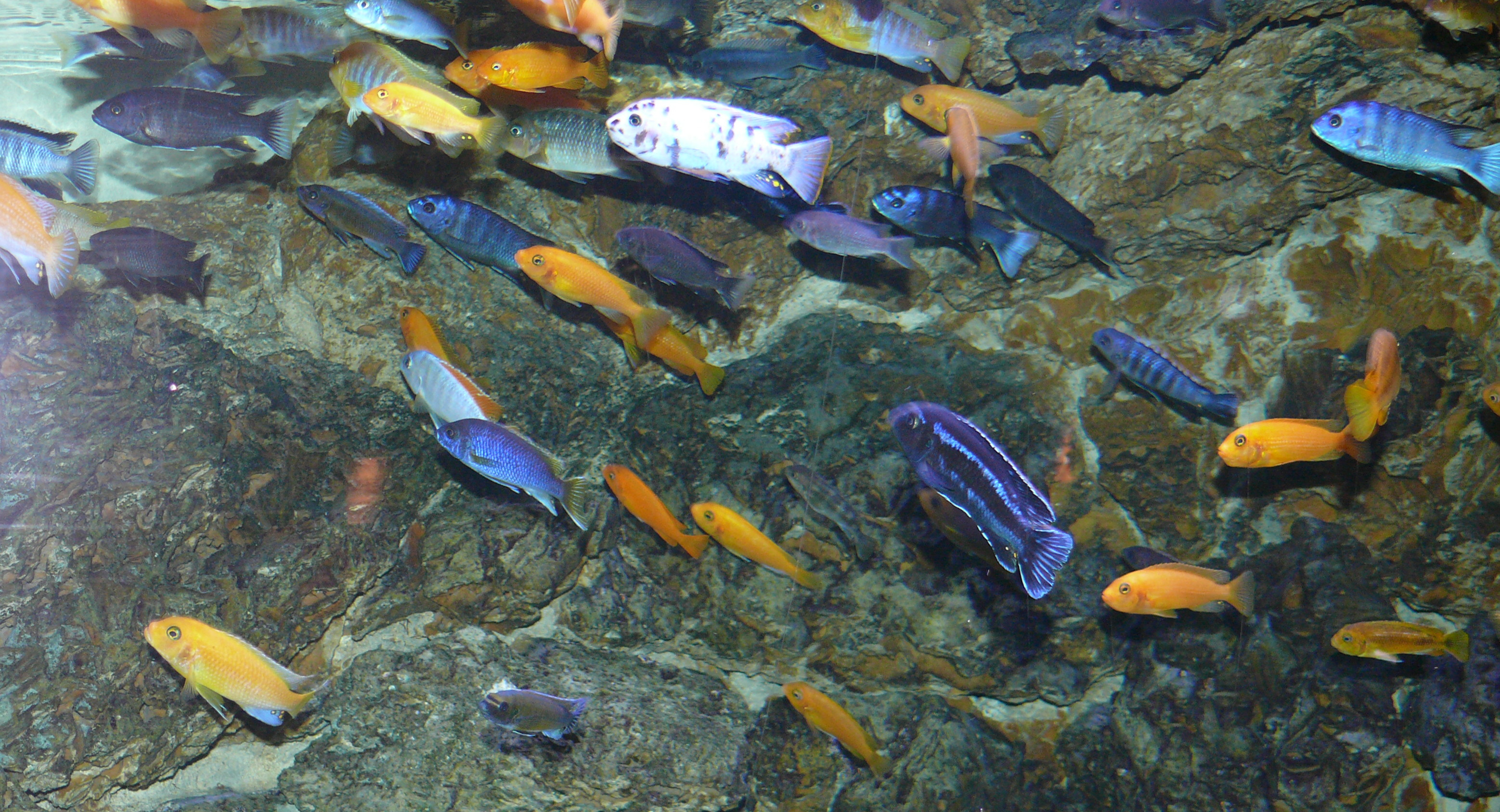 different Mbuna from Lake Malawi